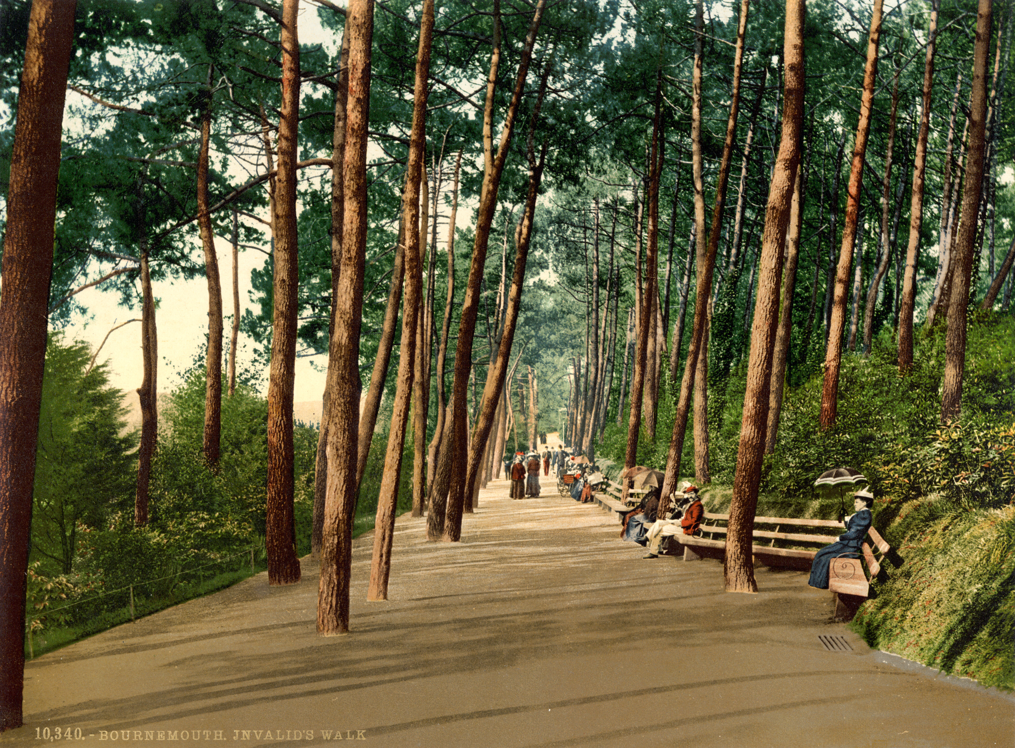 Invalids' walk, Bournemouth, England. 1 photomechanical print : photochrom, color.